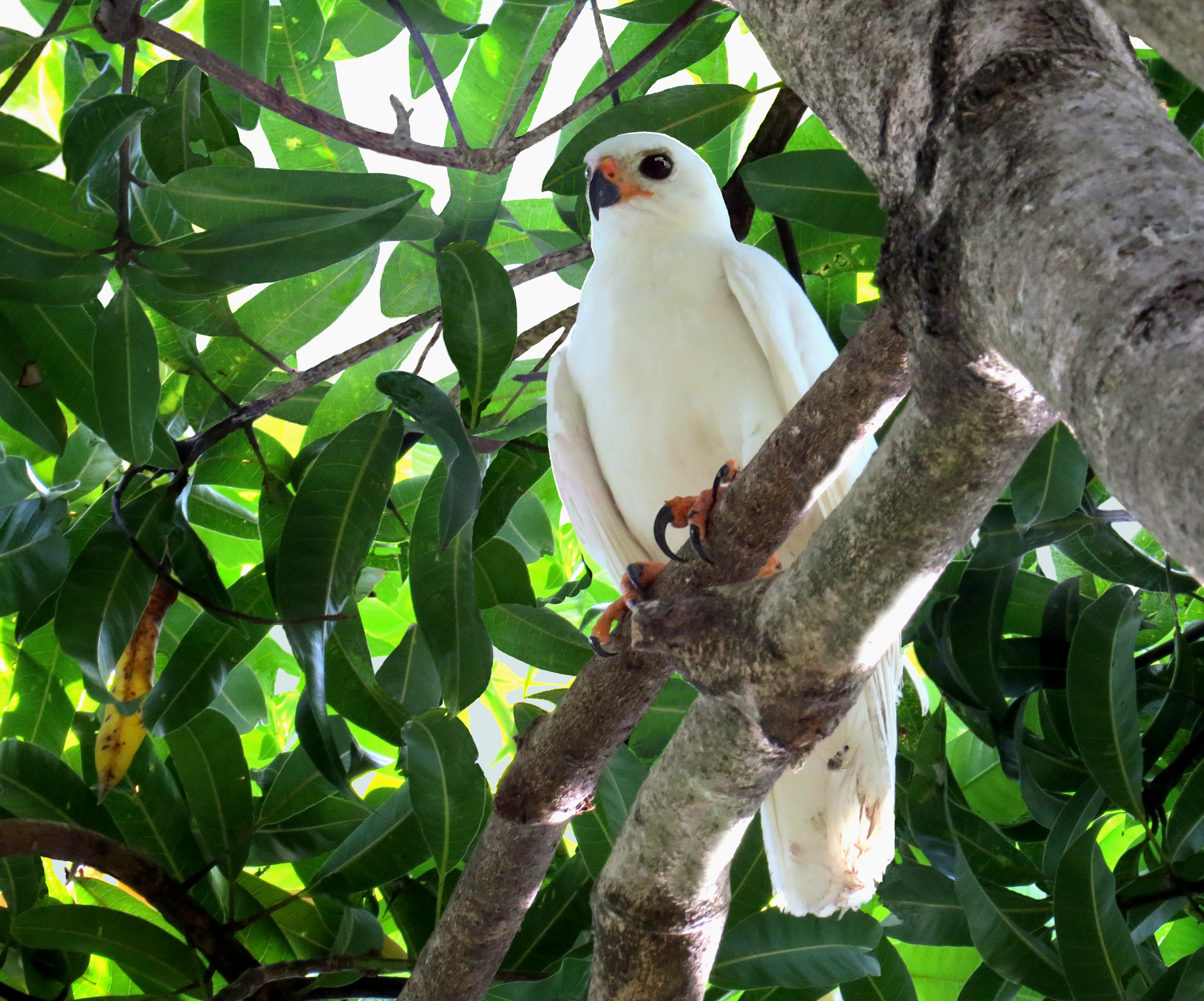 Grey Goshawk (white morph) in a Mango tree (Mangifera indica) in Cairns, Queensland, Australia